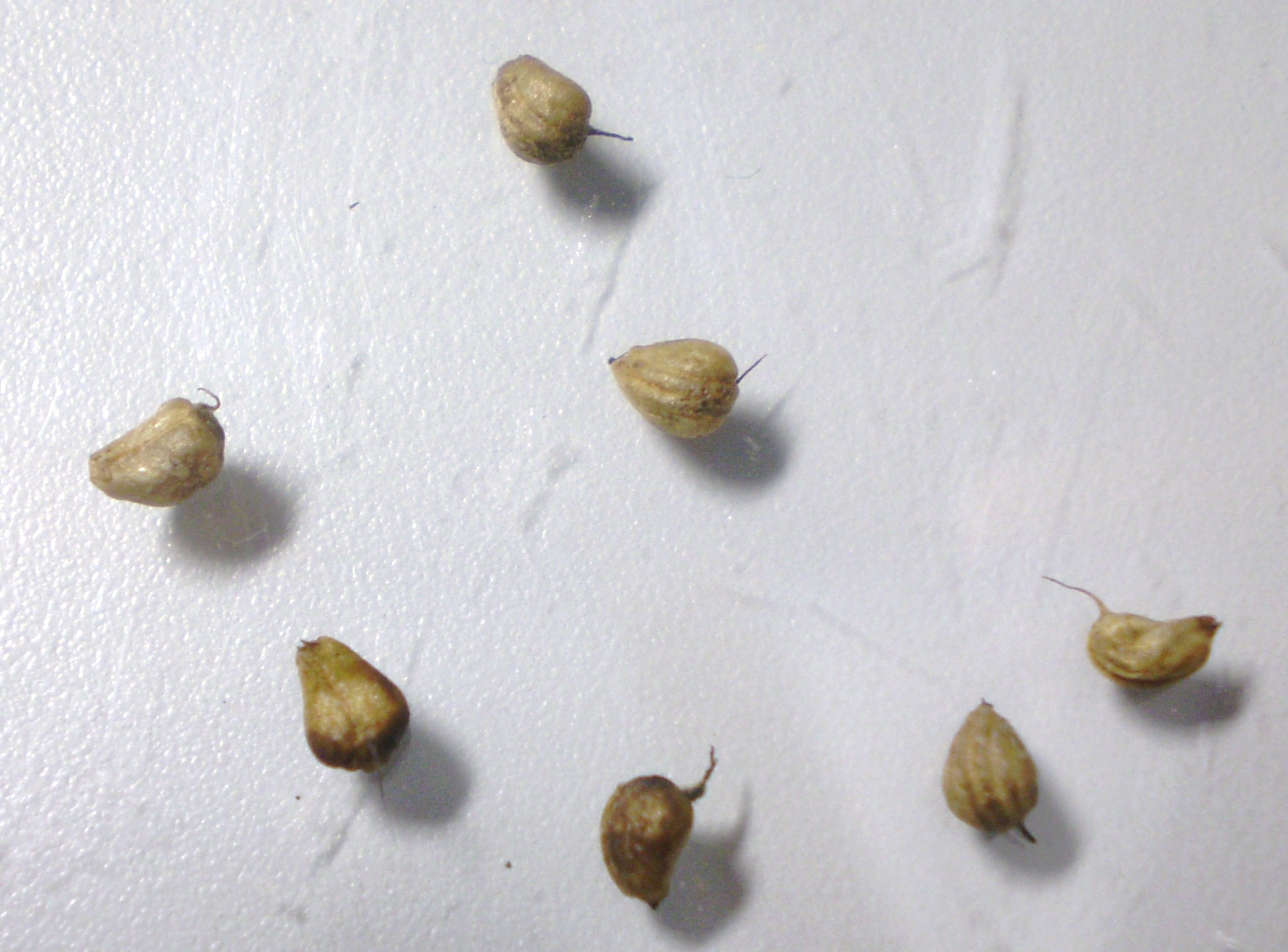 Seeds of Caldesia parnassifolia